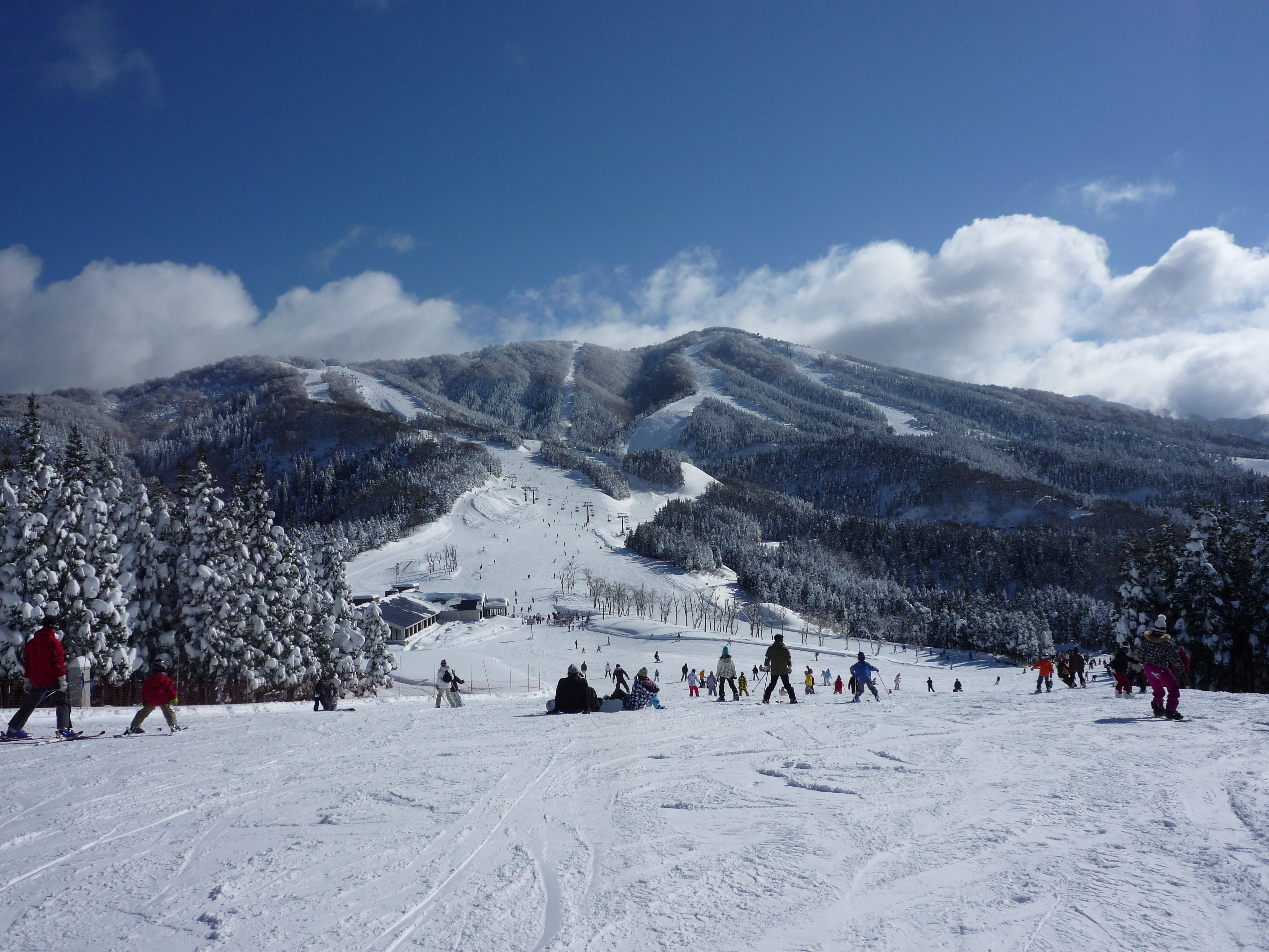 Ski resort: Ski Jam Katsuyama in Katsuyama. Mount Ho'on-ji in the back.